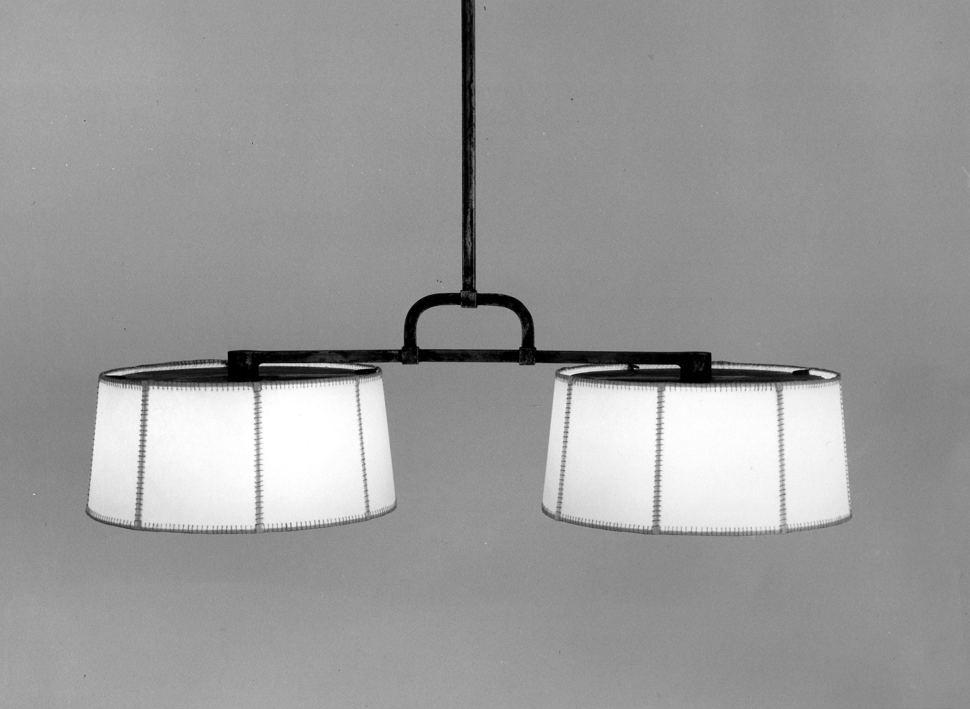 Venecia hanging lamp